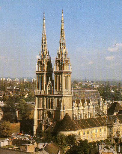 The Zagreb Cathedral (aerial photograph)